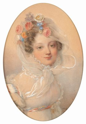 Catherine Pavlovna of Russia